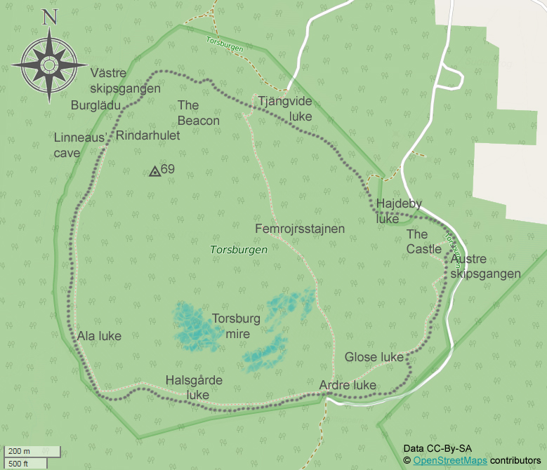 Map of Torsburgen hillfort in Kräklingbo, Gotland, Sweden.